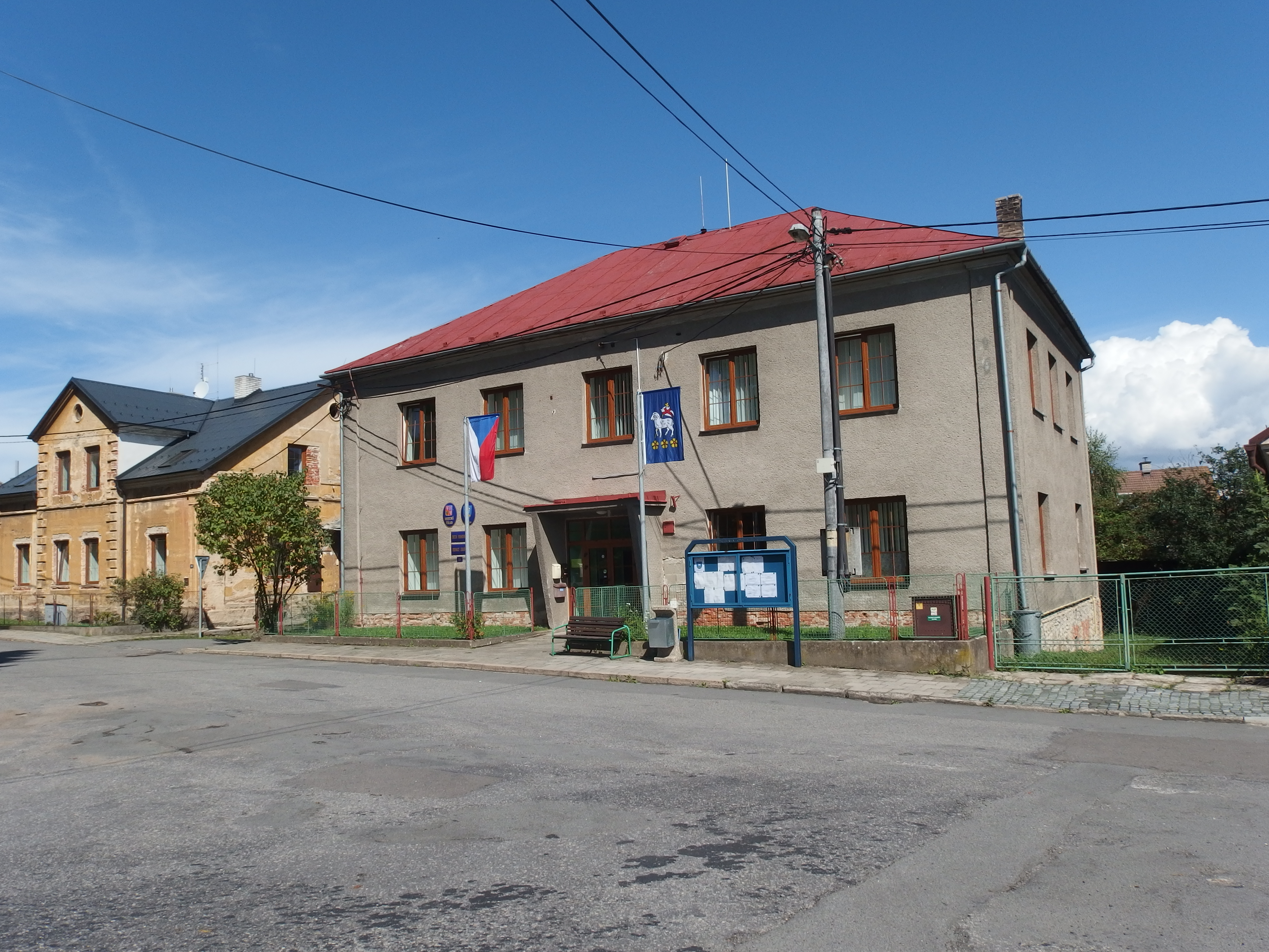 Stěbořice, Opava District, Czech Republic.